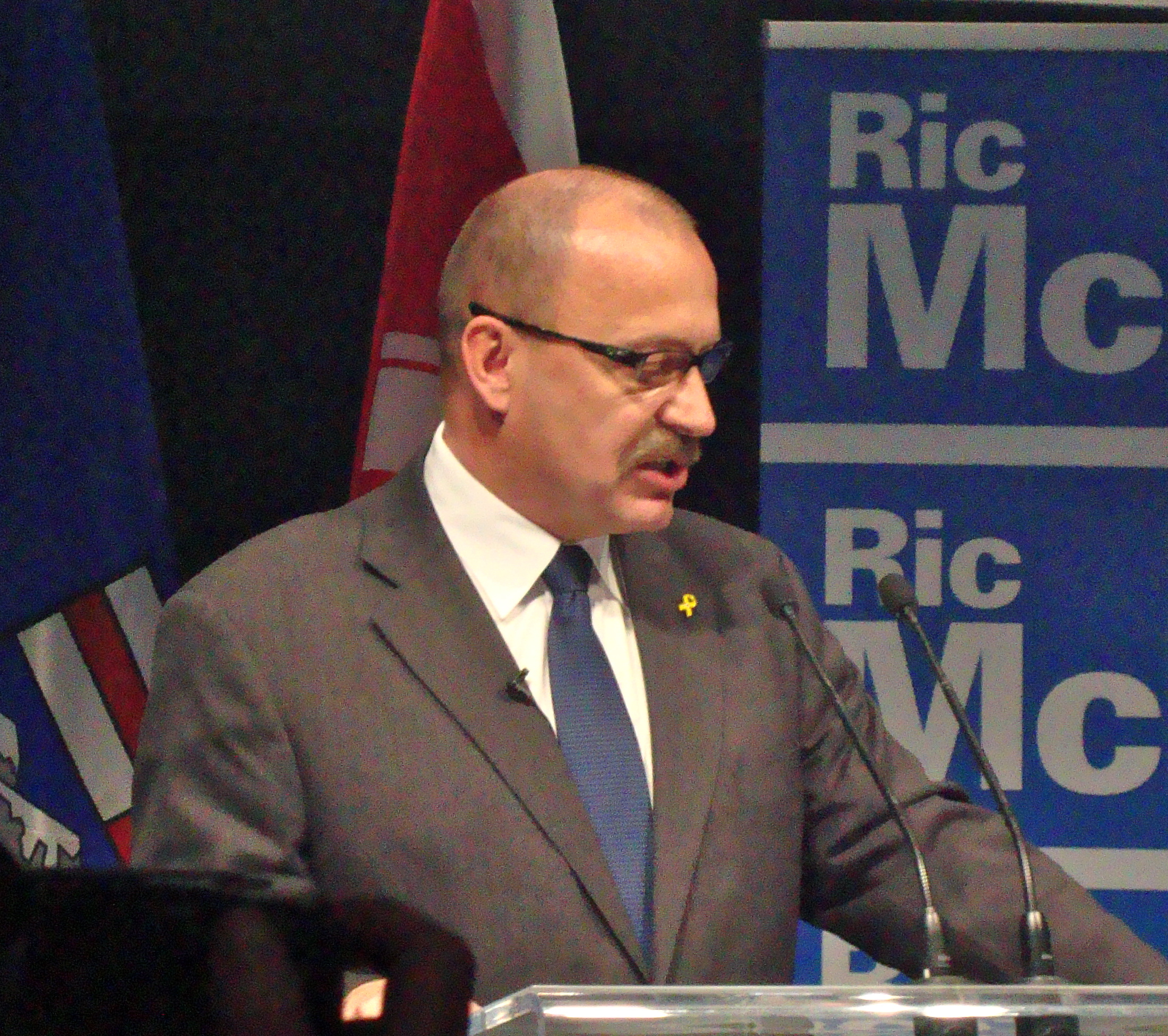 Ric McIver making his speech at his mayoral campaign launch in Calgary, Alberta, Canada.